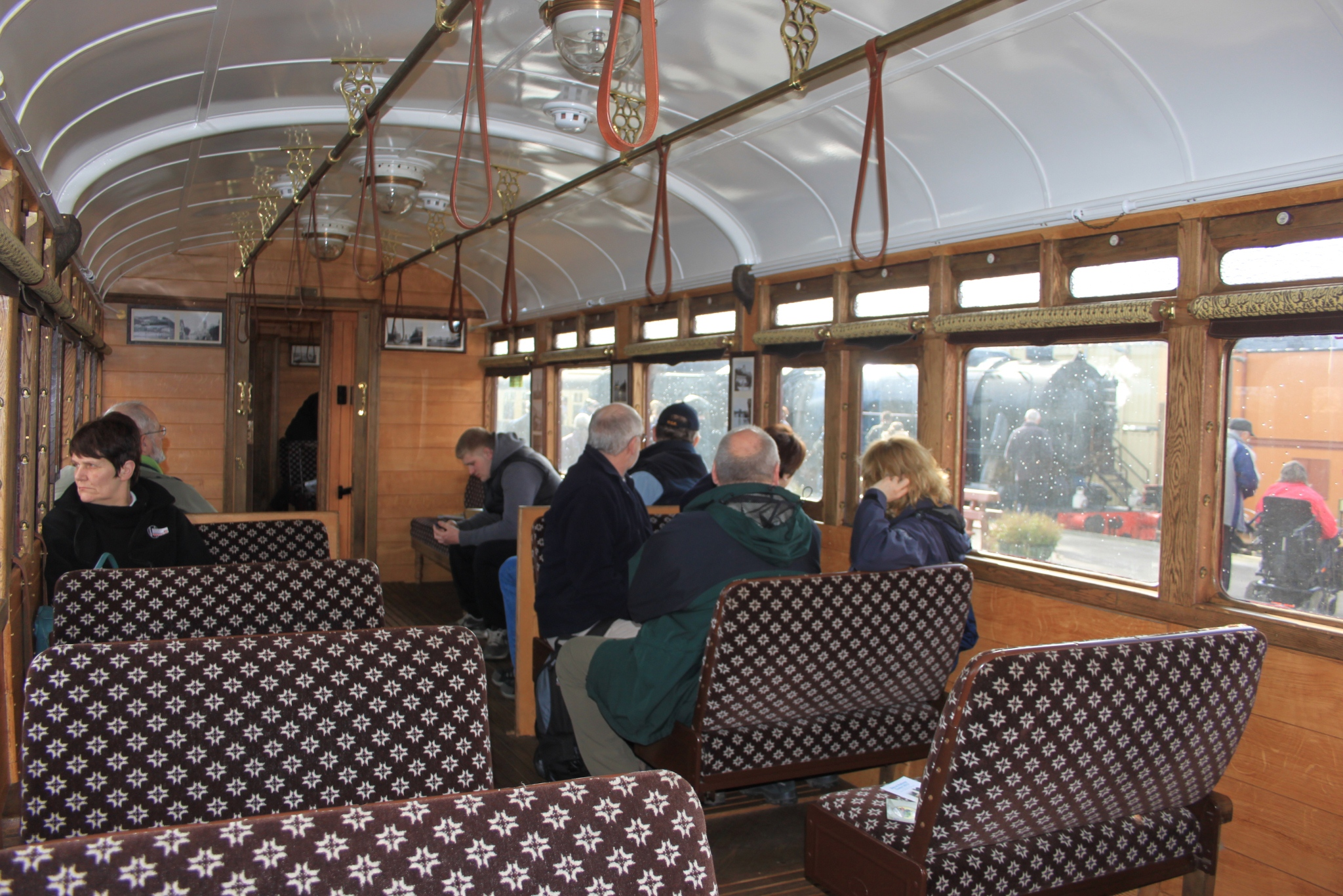 Inside the main saloon of restored Great Western Railway Steam Railmotor. The turn-over seats were recovered from Austrailian trams which used identical seats to the steam railmotors when they were first built. It is at Minehead ready for its first public trip on the West Somerset Railway.